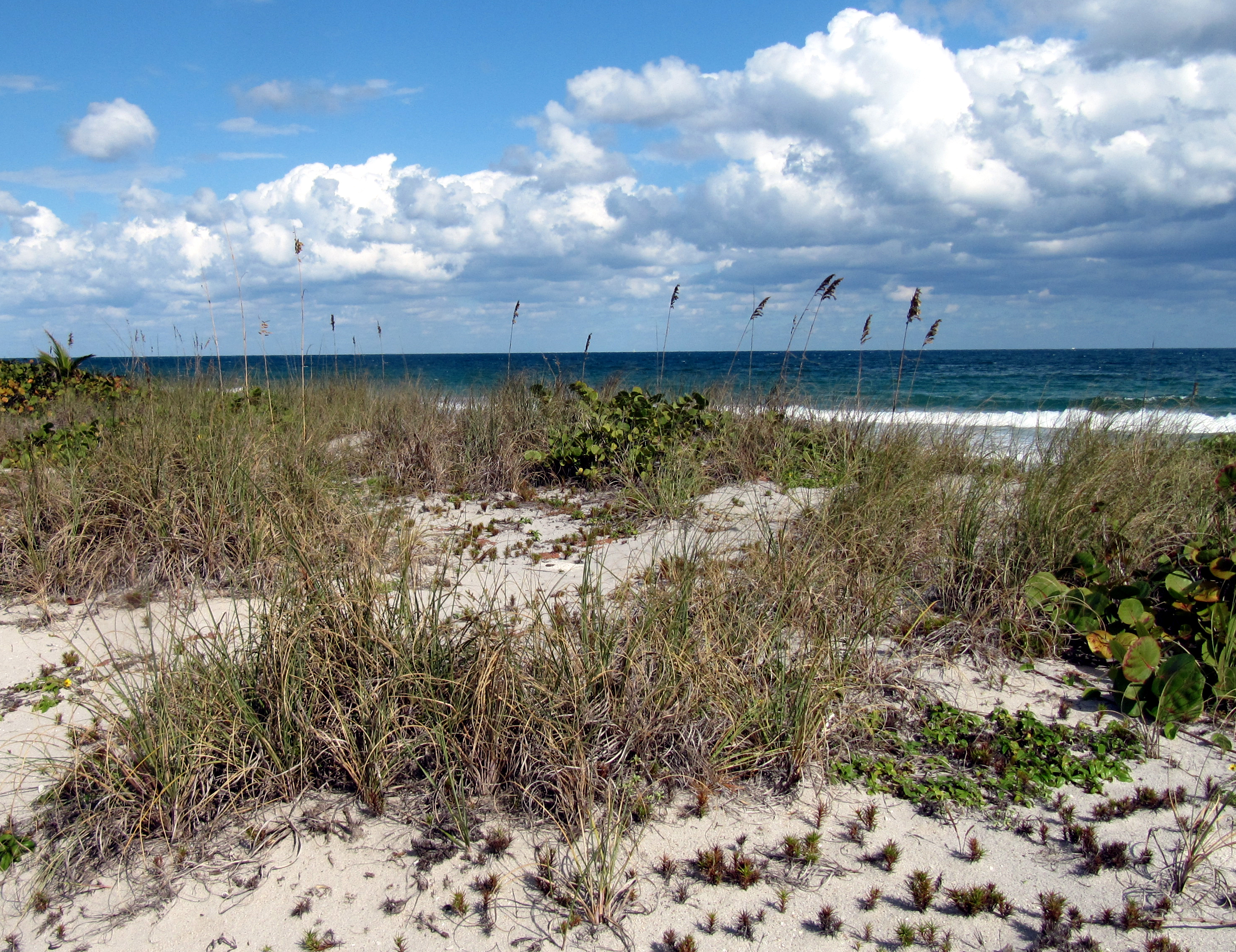 Oat grass (Uniola paniculata) on a sand dune crest at John U. Lloyd Beach State Park, Florida.